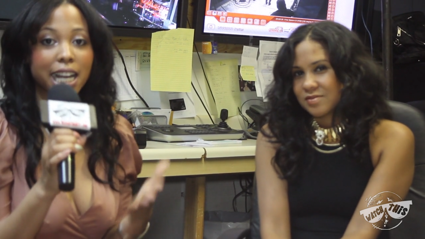 Angela Yee in May 2013.